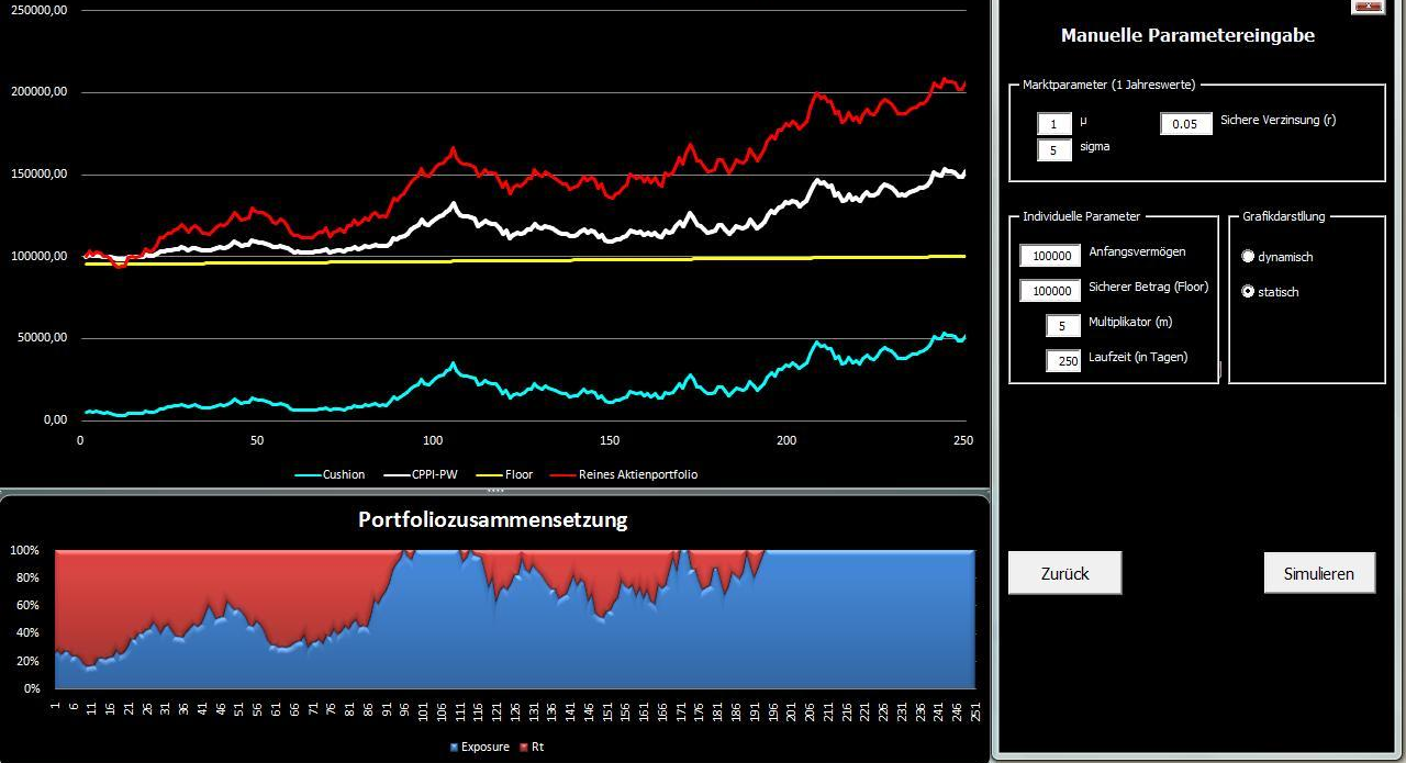 simulation